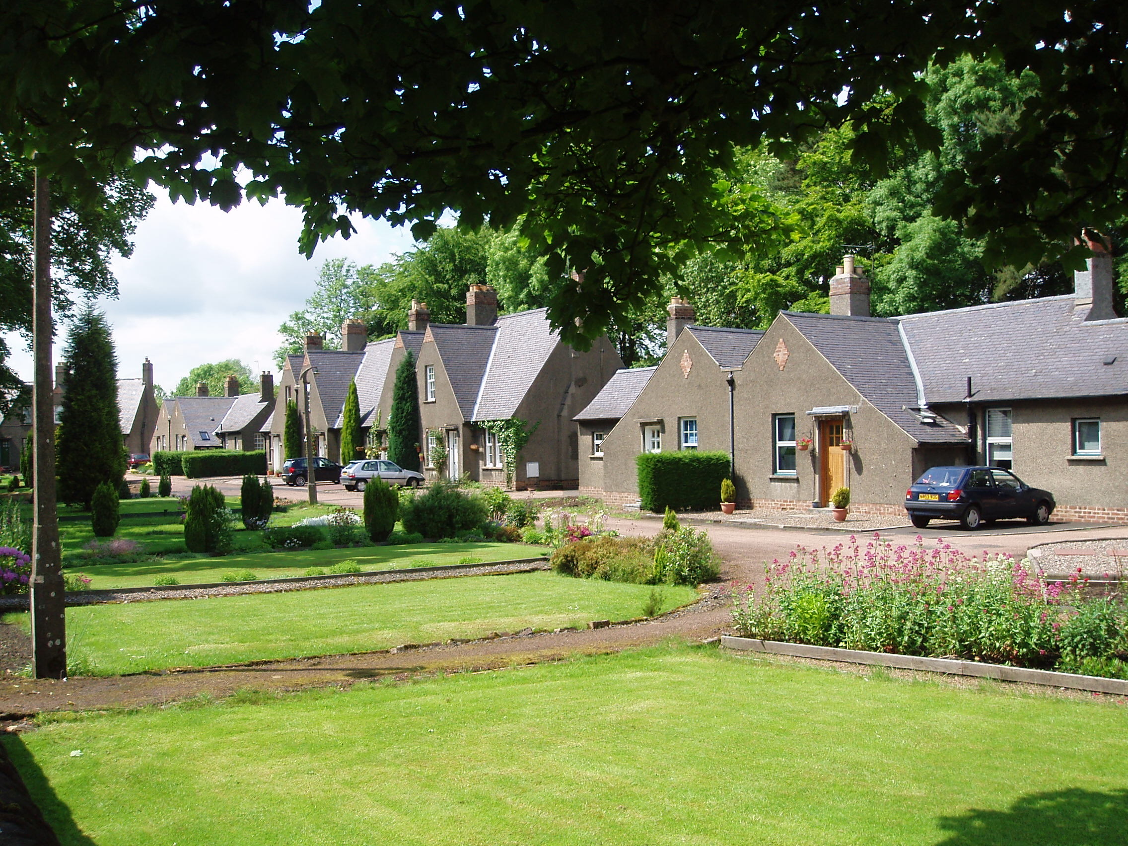 Houses in Cadham village, now part of Glenrothes, Fife; source Michael Westwater